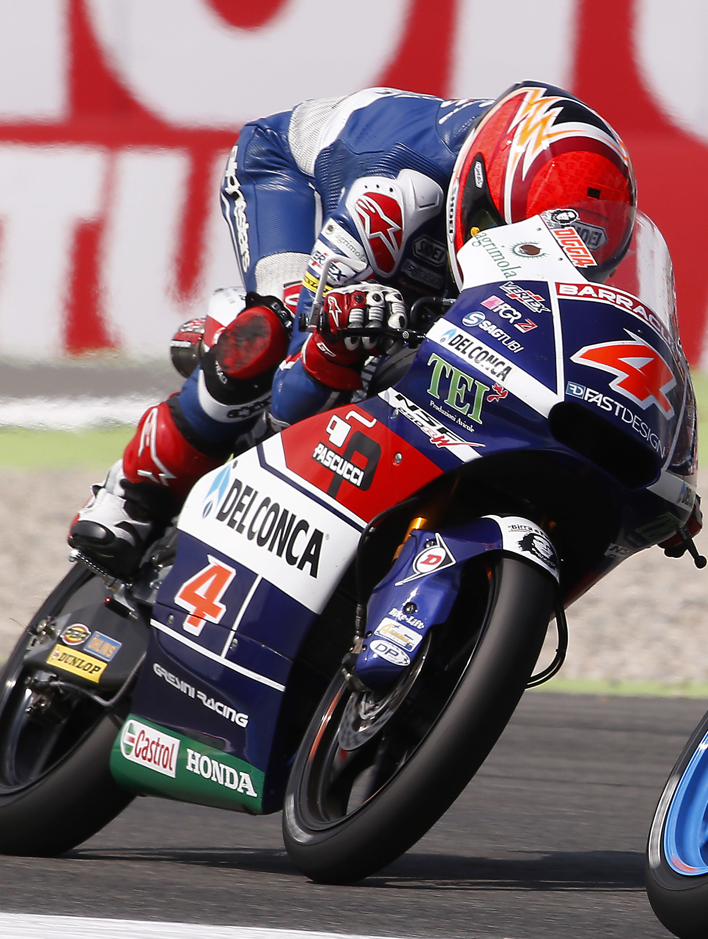 Fabio Di Giannantonio and Lorenzo Dalla Porta in 2016 Holland GP